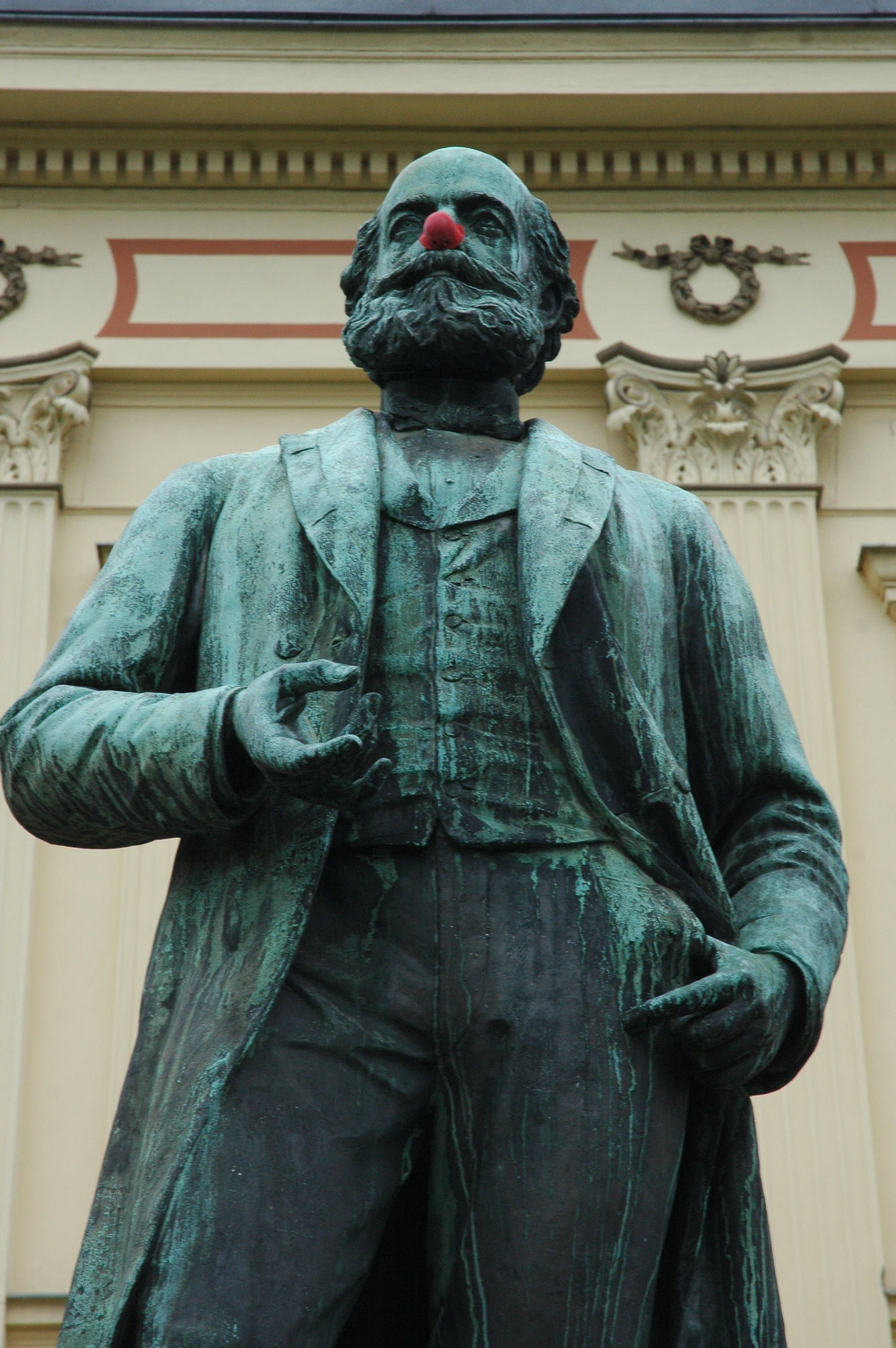 Monument of August Kekulé in front of his former workplace, the Chemical Institute of the University of Bonn (Nowadays: Dept. of Geography / Microbiology Labs).